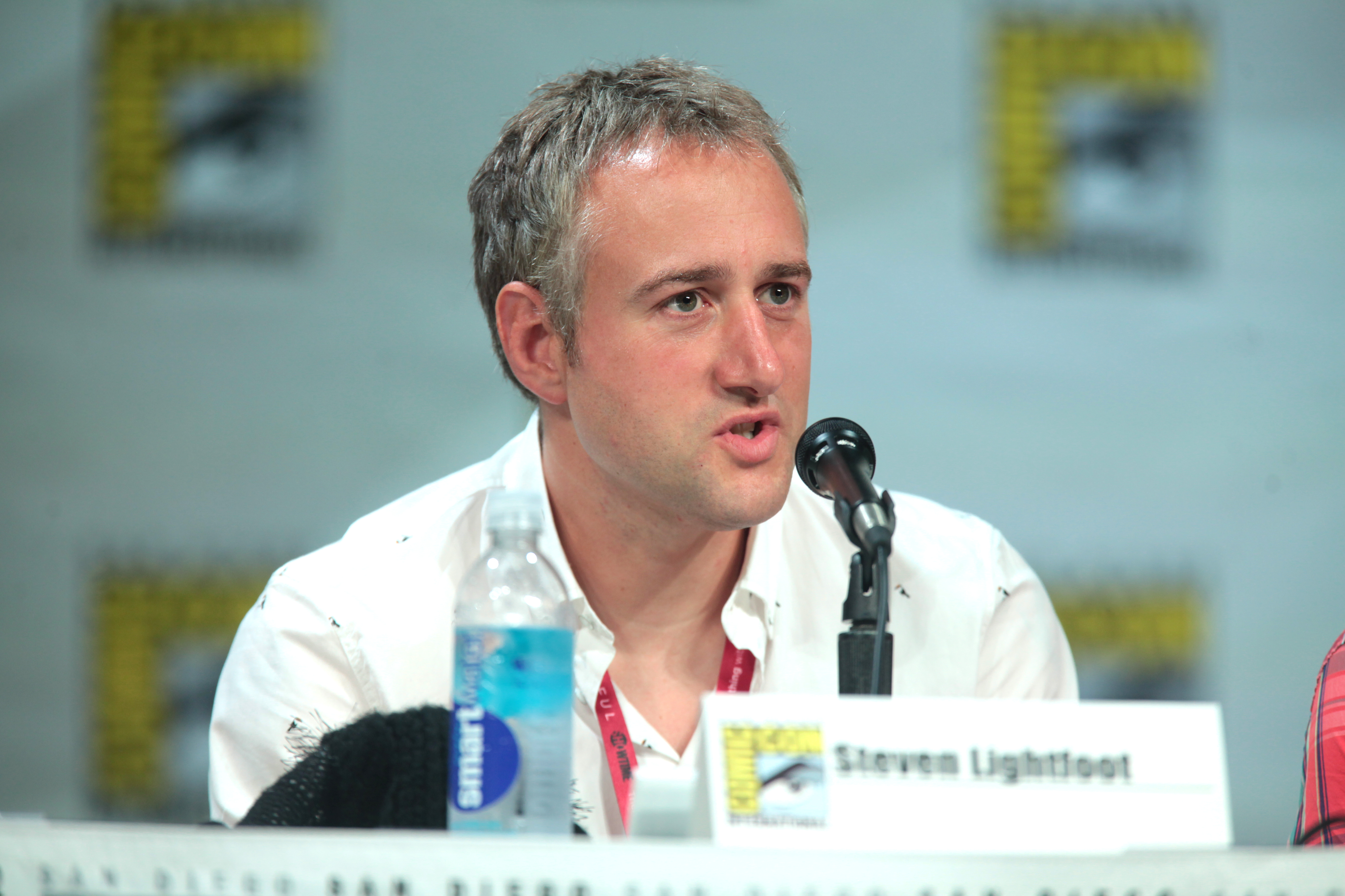 Steven Lightfoot speaking at the 2014 San Diego Comic Con International, for "Hannibal", at the San Diego Convention Center in San Diego, California.